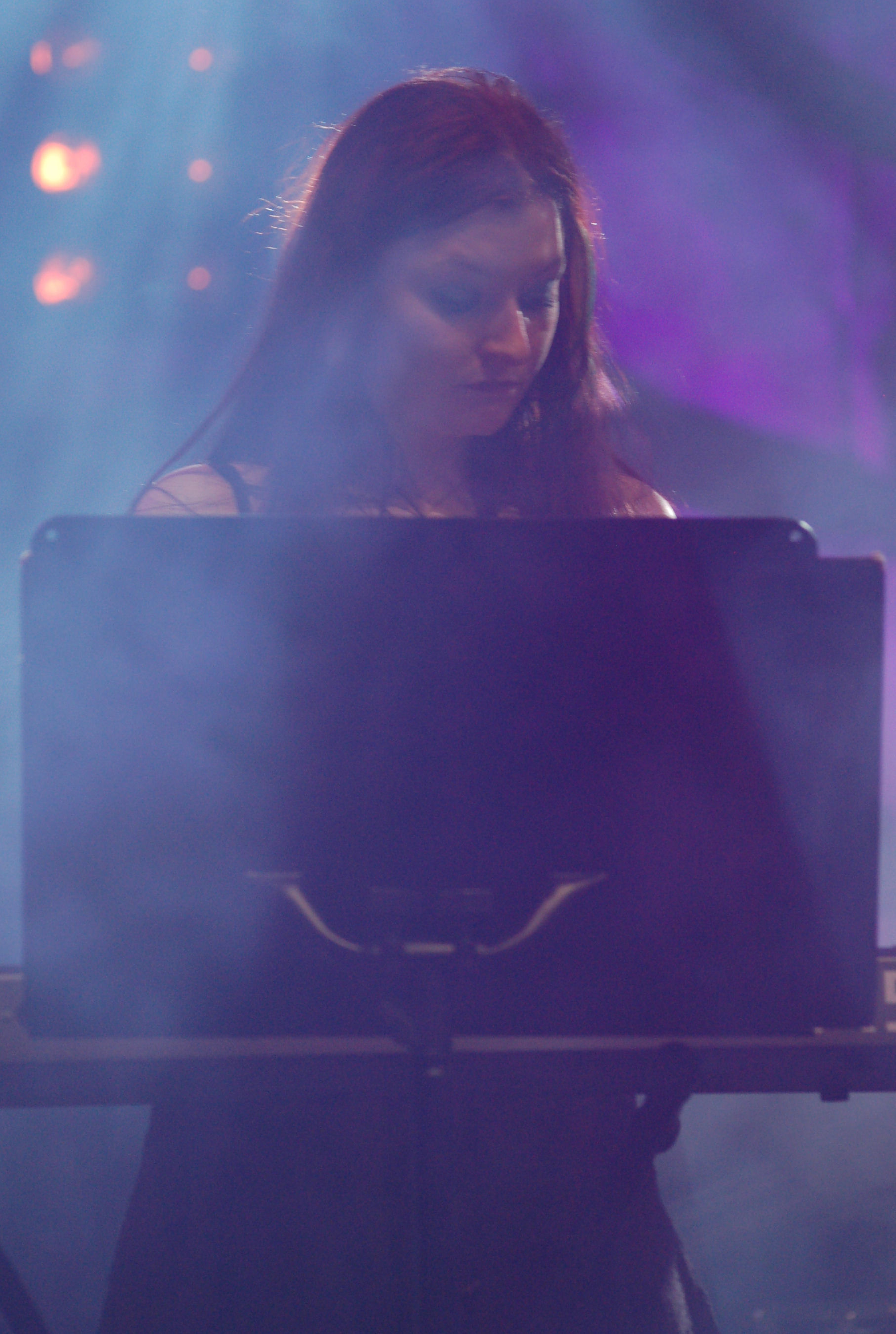 Sarah Stanton from My Dying Bride during Metalmania 2007 festival